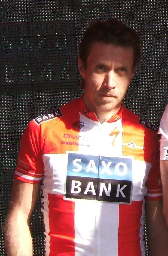 Named cyclist at the en:2009 Tour Down Under team presentation